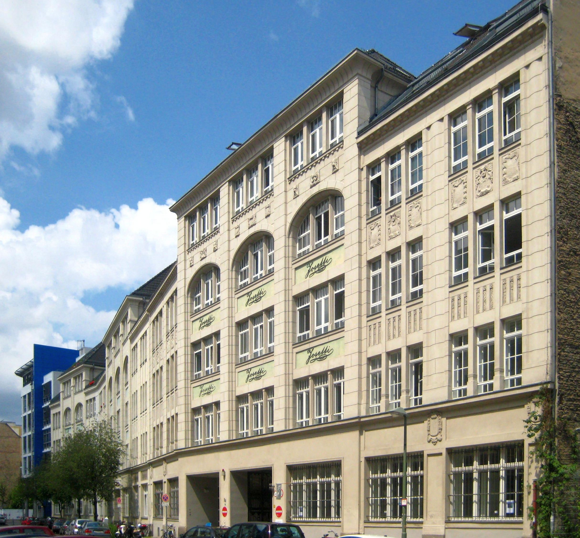 The former cigarette factory Josetti, now Josetti-Höfe, at Rungestraße No. 22-25 in Berlin Mitte, built 1906 to 1907. The vast complex with several inner yards extends up to the river Spree. The four-story facade with three five-story risalits follows the curved run of the street. The complex was used by the cigarette factory up to WWII and later by the GDR computer chip manufacturer Robotron, the State Office for Unsettled Property Questions and (unitl 2006) the "Dokument Cinema", among others. Apartments, offices and small service enterprises (media, culture, fashion, design, etc.) are now located here. The building complex has been designated a historic landmark. On the left, the corner of Jannowitzcenter can be seen.